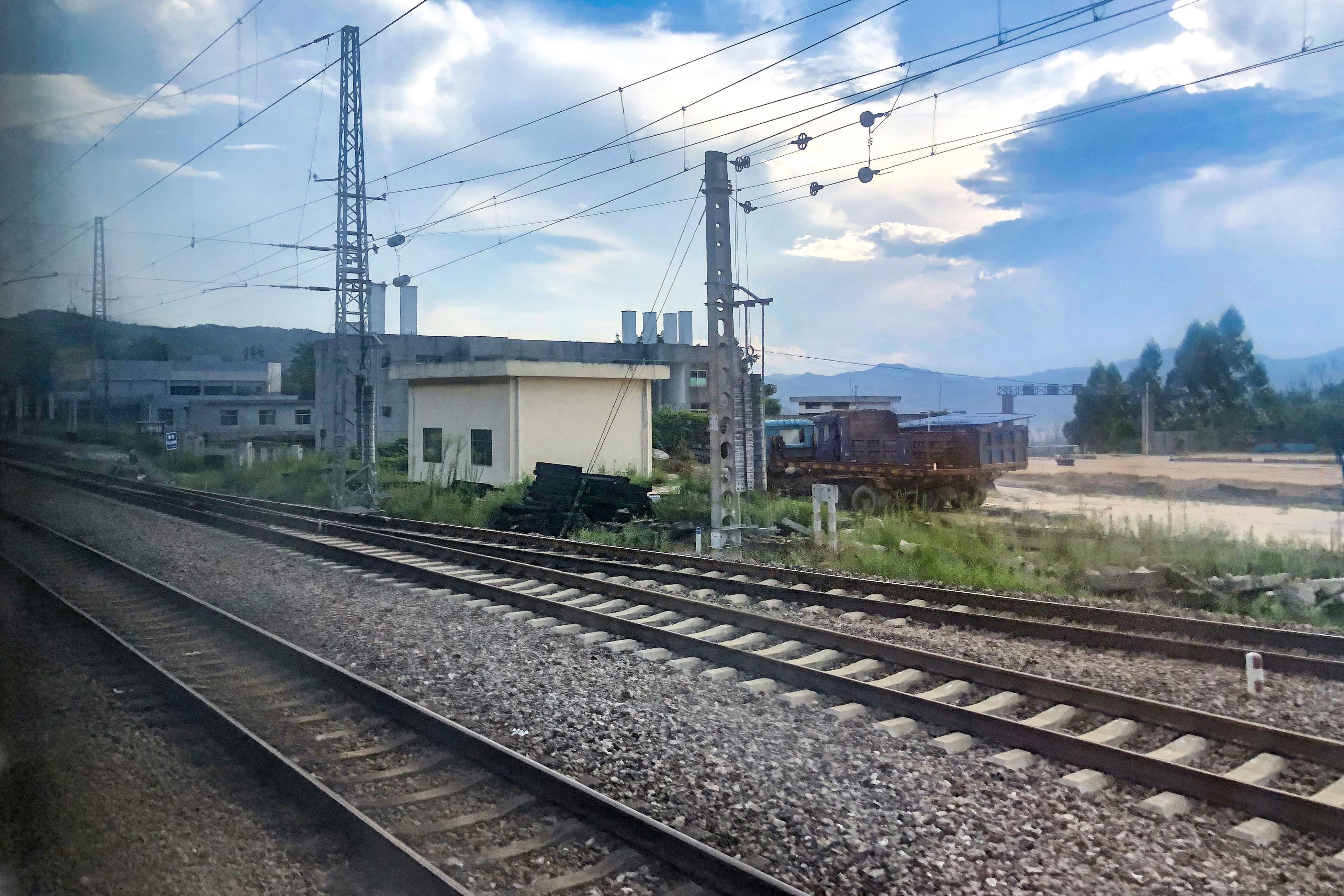 Blocked by train.